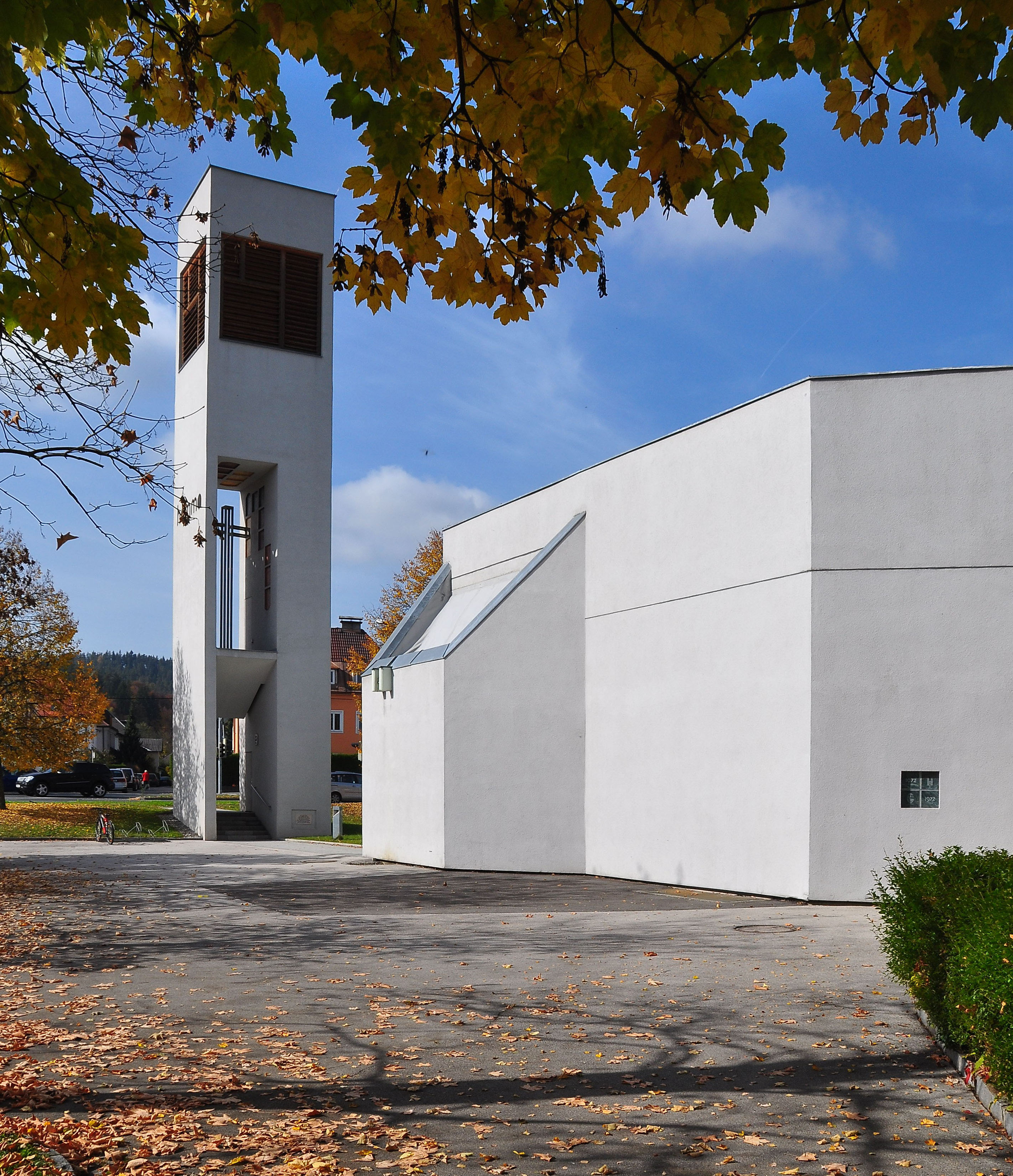 Parish church “Saint Hemma” in the Feldkirchner Strasse, the 5th district "Sankt Veiter Vorstadt" of Carinthia`s capital Klagenfurt, Carinthia / Austria / EU